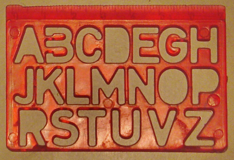 A plastic stencil for the Latin alphabet, combined with a ruler at the top